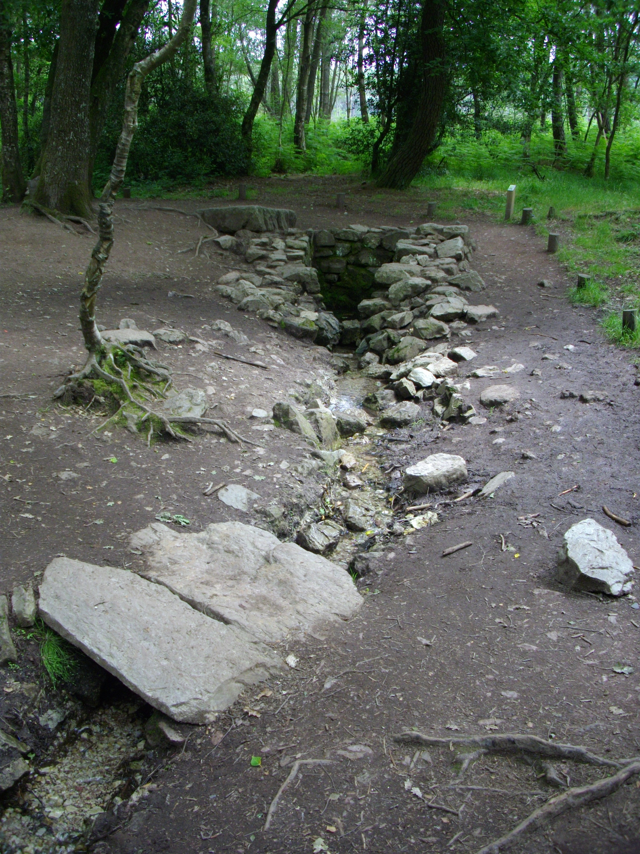 Barenton fountain, in Paimpont forest (Ille-et-Vilaine, France)